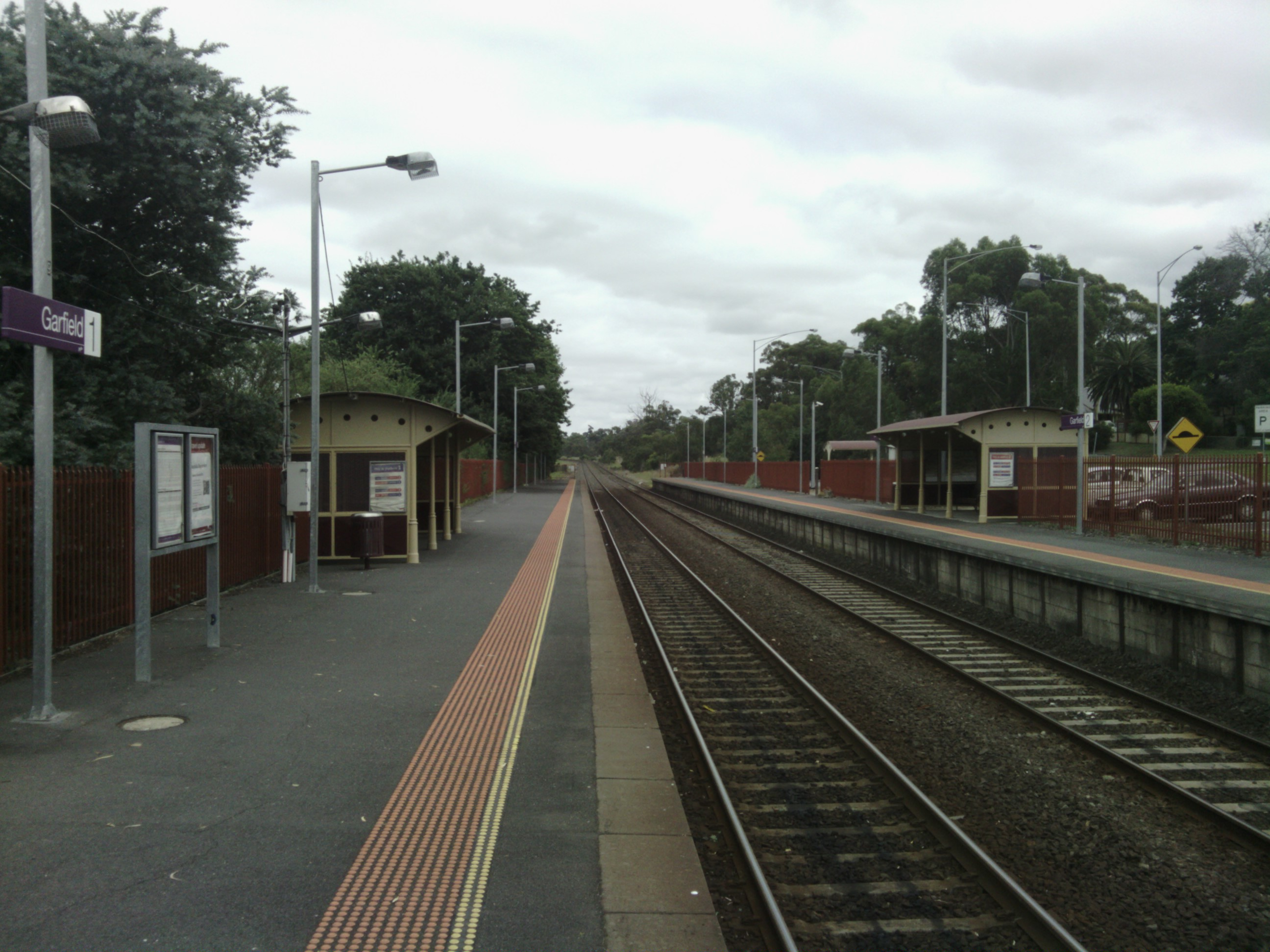 Platforms at Garfield railway station.